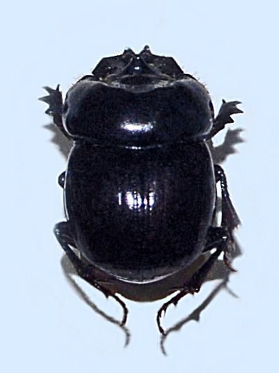 Dichotomius species. Museum specimen on display at the Civico Museo di Storia Naturale di Trieste